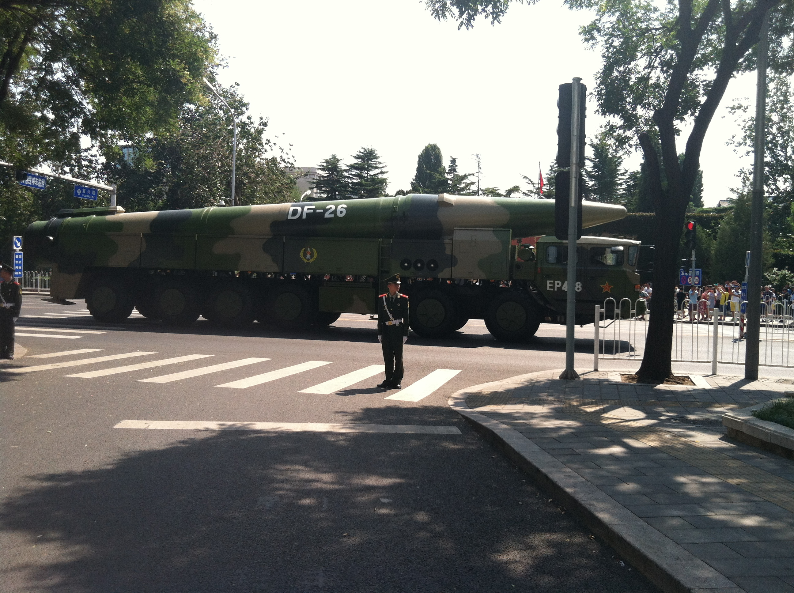 The newly developed DF-26 medium-range ballistic missile as seen after the military parade held in Beijing to commemorate the 70th anniversary of the end of WWII.